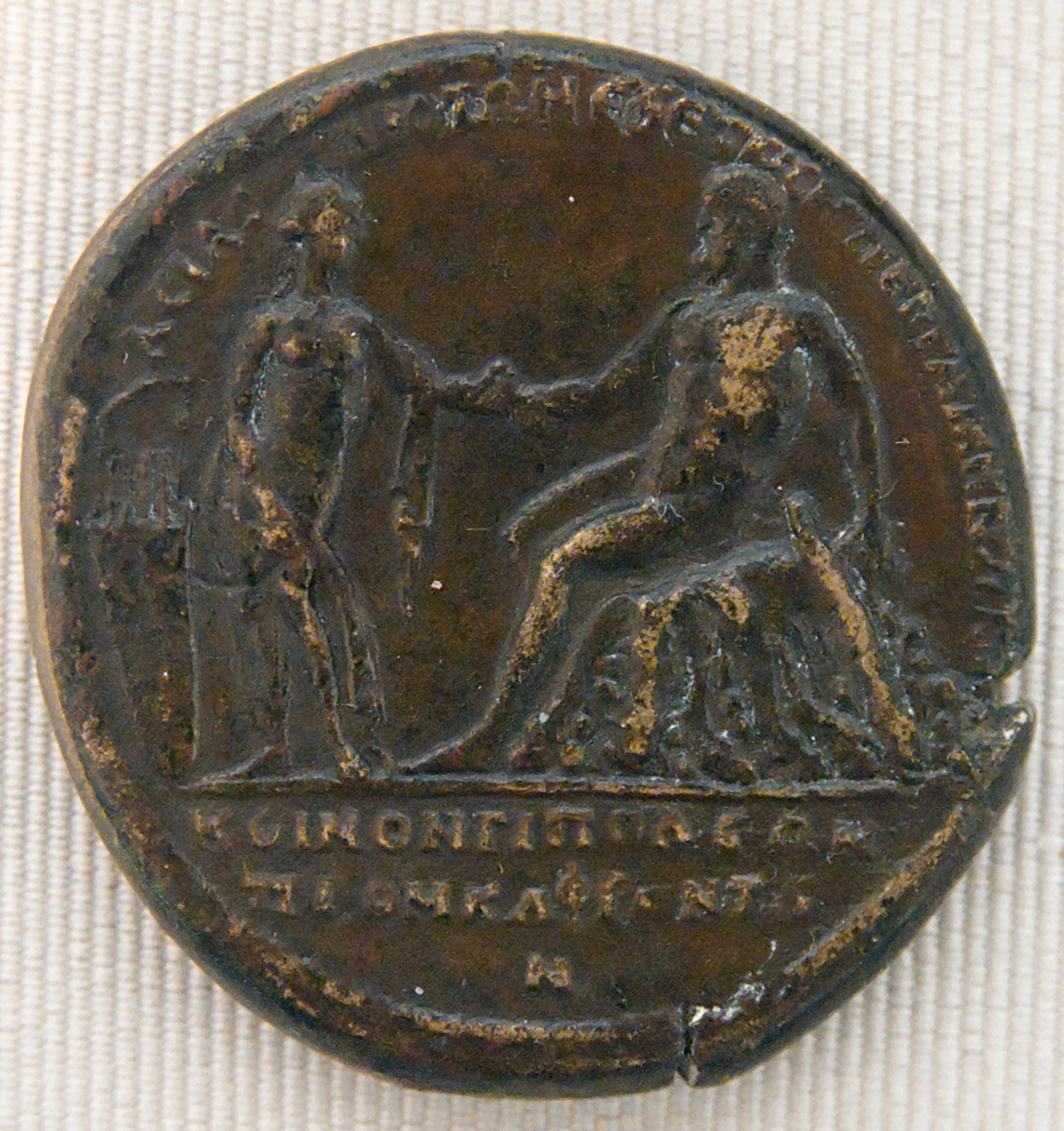 Bronze medallion issued by the city of Ephesos under the reign of Emperor Antoninus (138-161 AD). Obverse: Herakles and Iolaos.